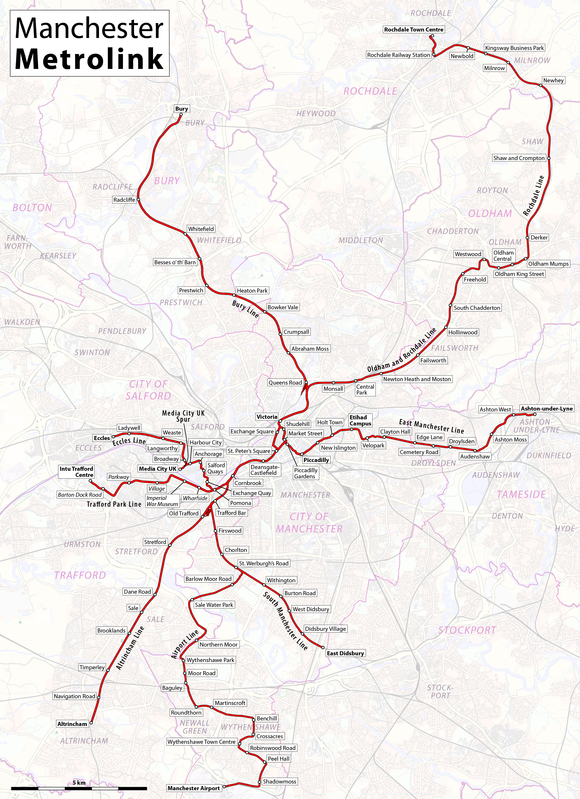 Map of the Manchester tramway "Manchester Metrolink"